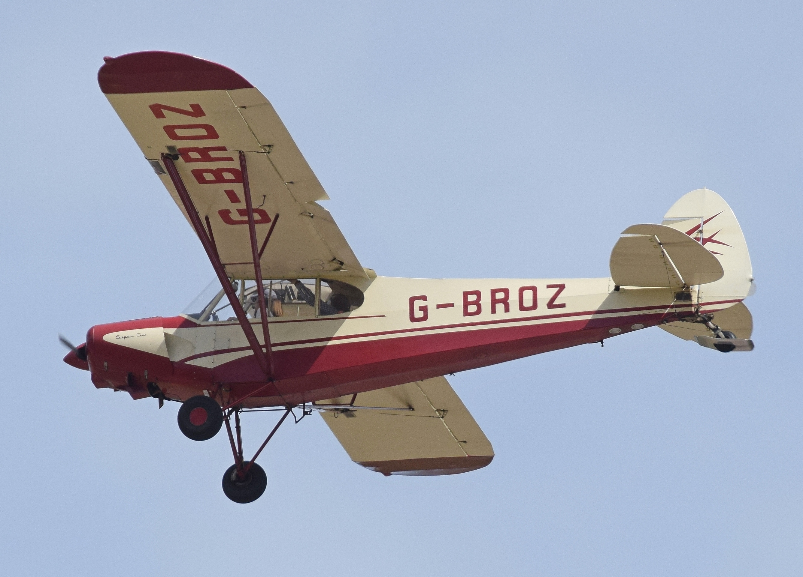 Piper PA-18-150 Super Cub (G-BROZ) landing at the 2017 Royal International Air Tattoo, RAF Fairford, England.